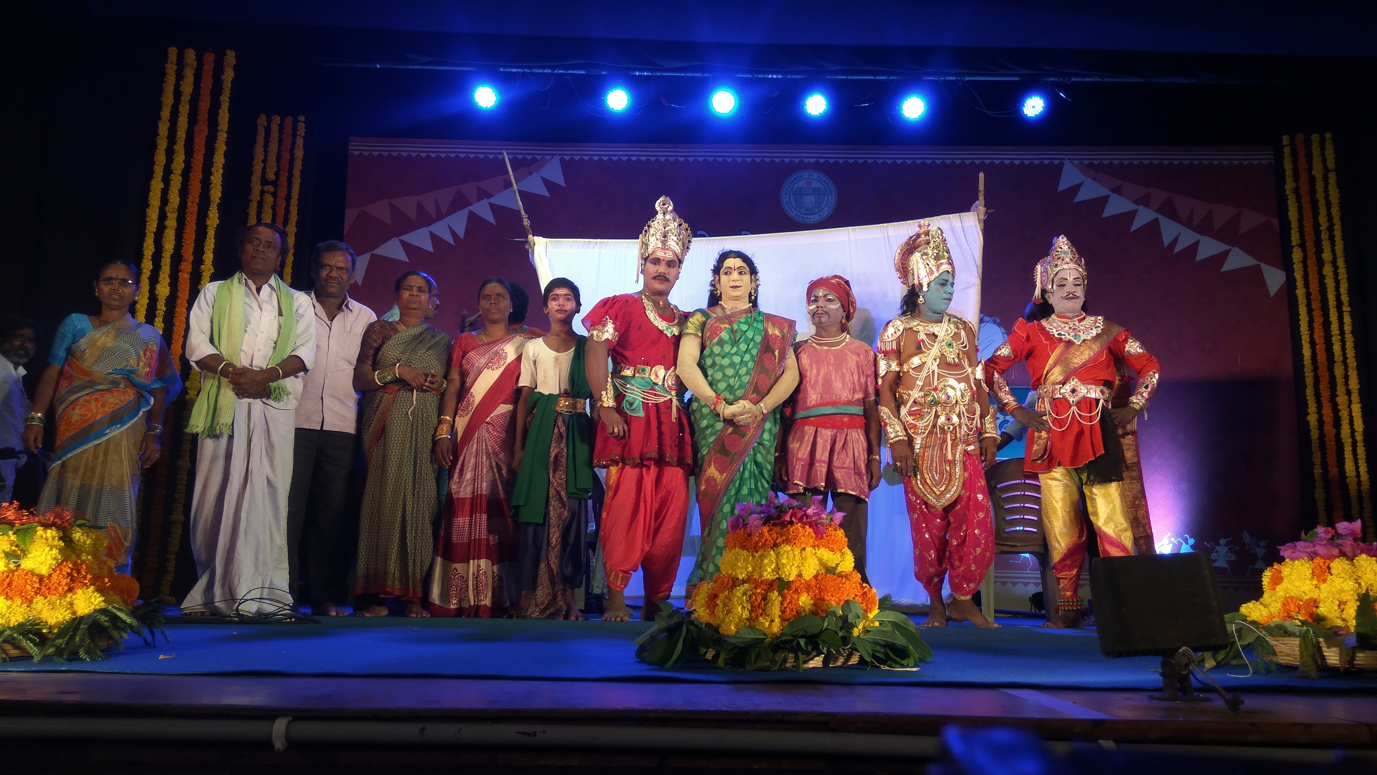 Bhagavathulu Folk Art form performance in Janapada Jathara (2018) Closing Ceremony on 31st August 2018 in Ravindra Bharathi, Hyderabad organised by Department of Language and Culture, Telangana Government